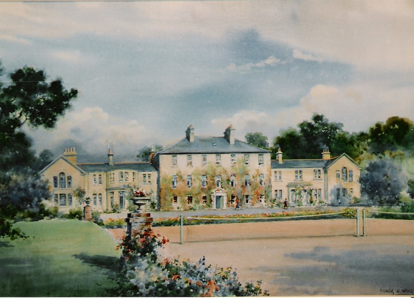 Scan of a photograph of a painting by Frank W Wood 1932, in private hands.